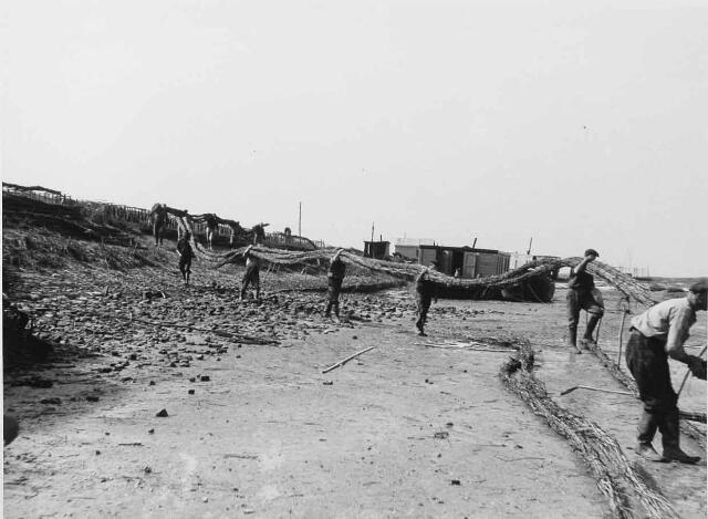 Labourers transport a faggot to the place where it will be built into a mattress for bed protection